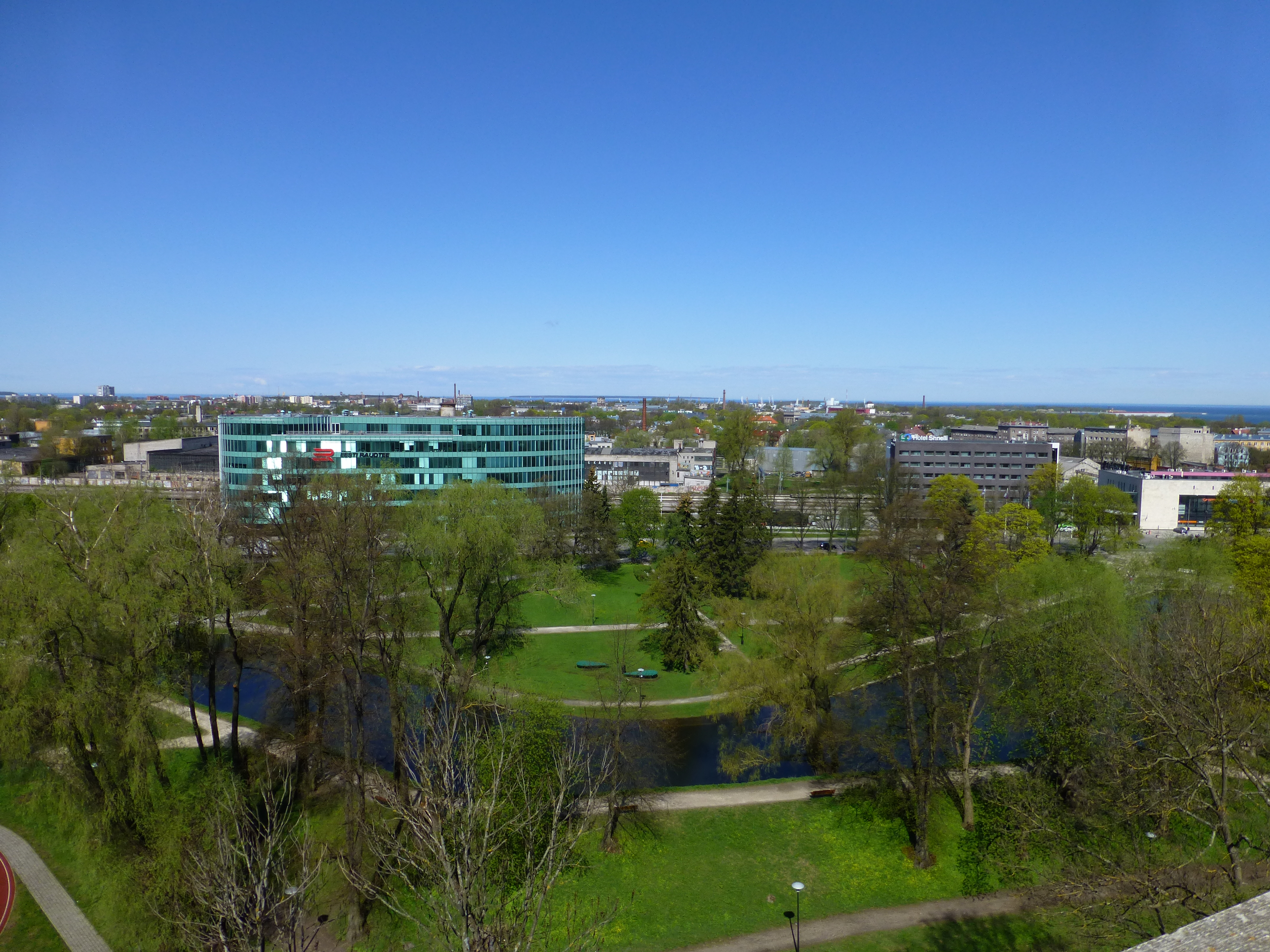 Tallinn - Eesti Raudtee and Hotel Shnelli